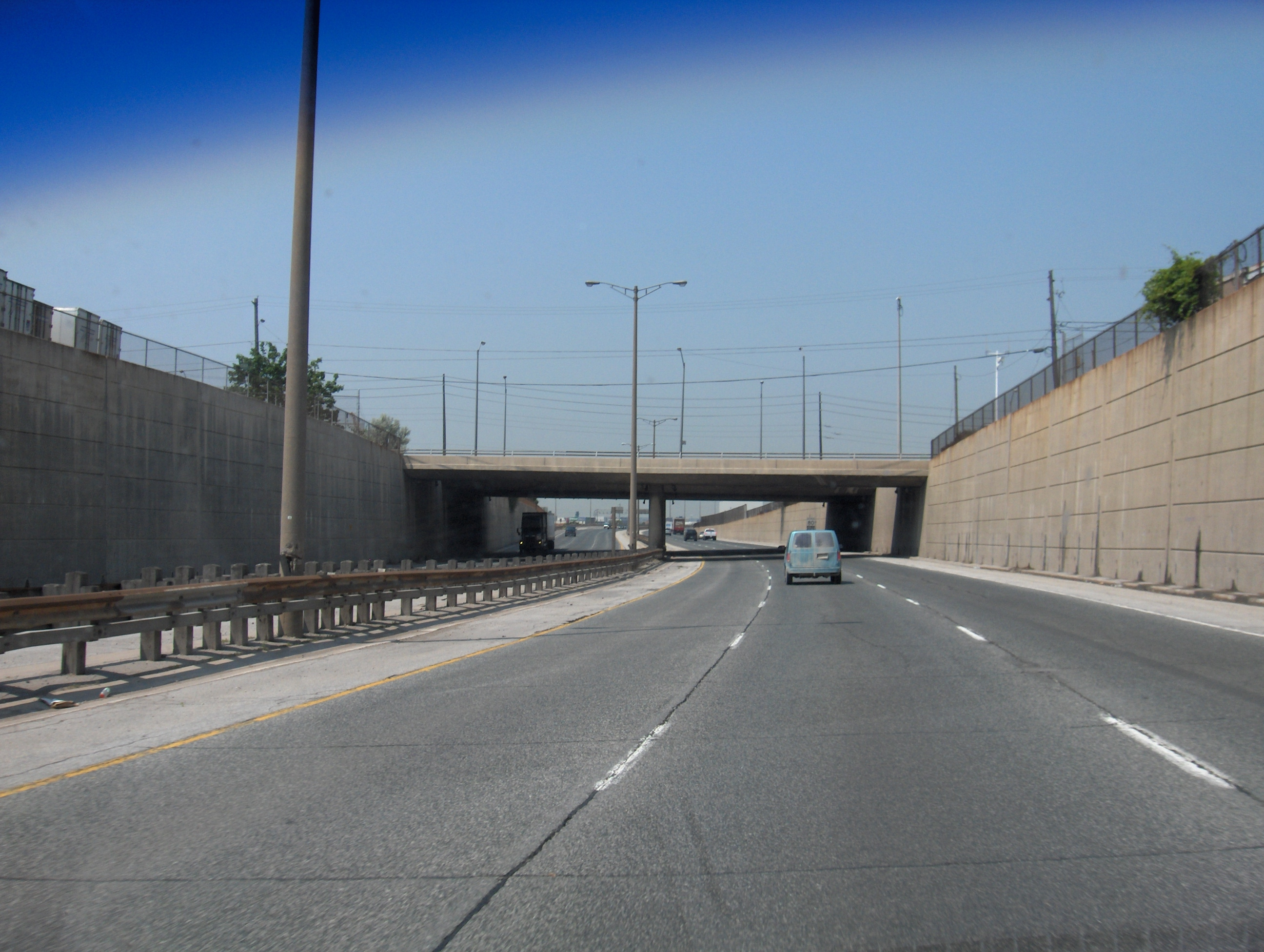 Highway 409 (Belfield Expressway) east of the Highway 427 junction.